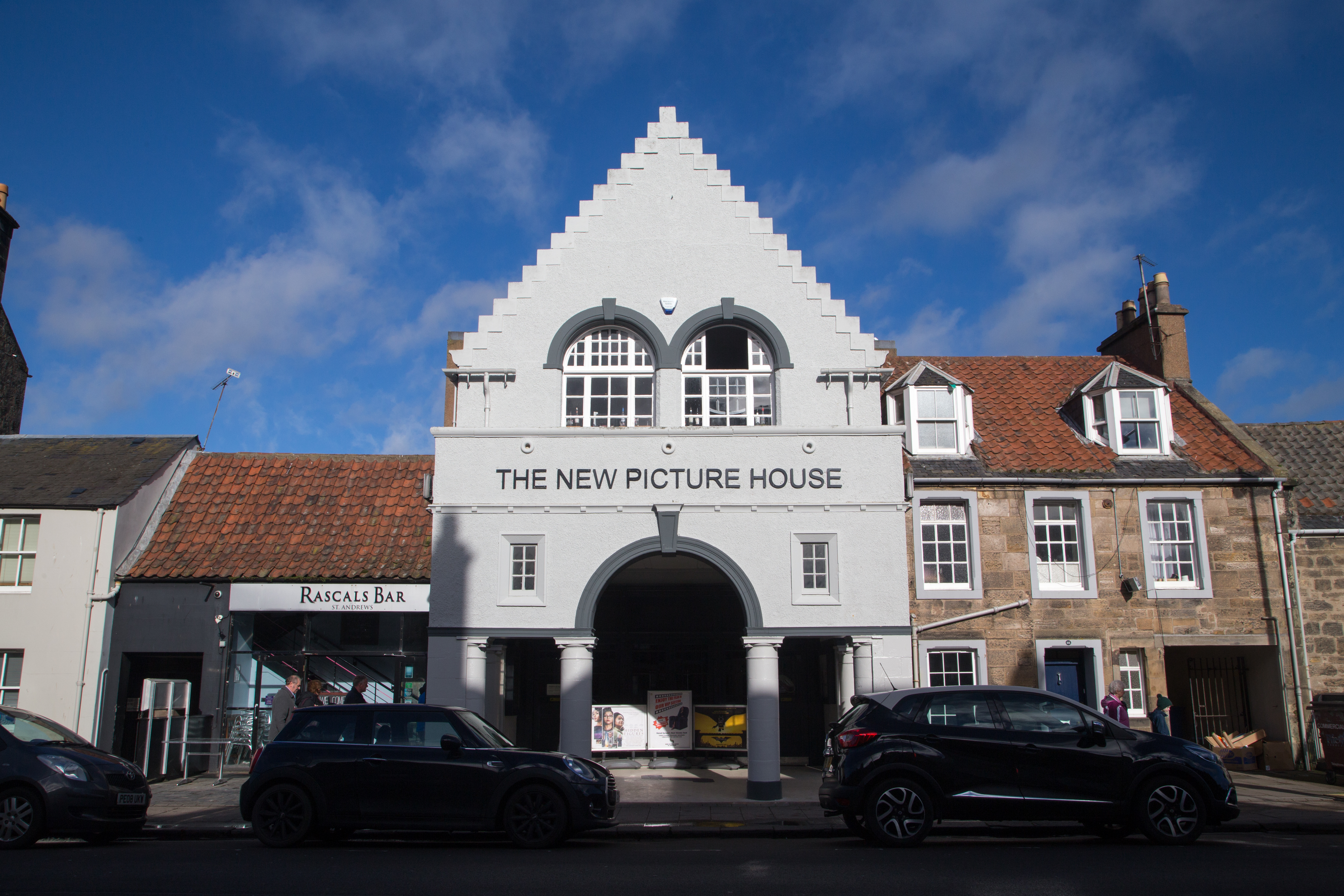 New Picture House Wikidata has entry Q7010976 with data related to this item.